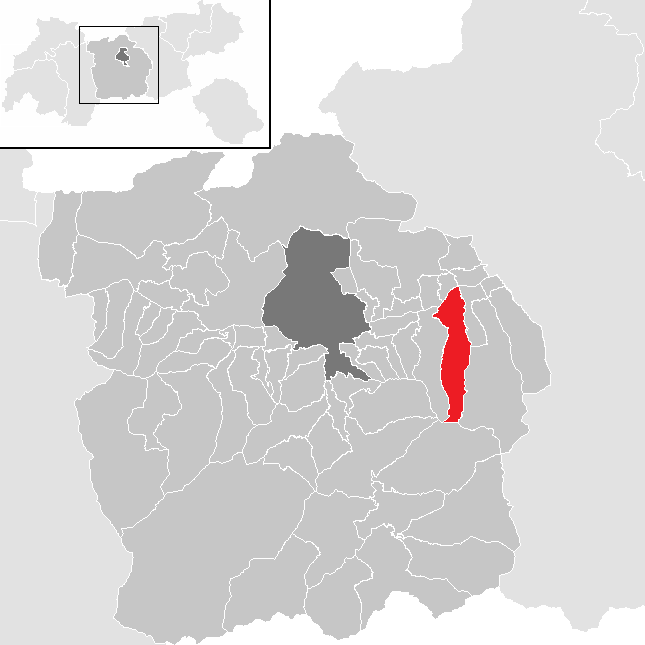 District Innsbruck Land